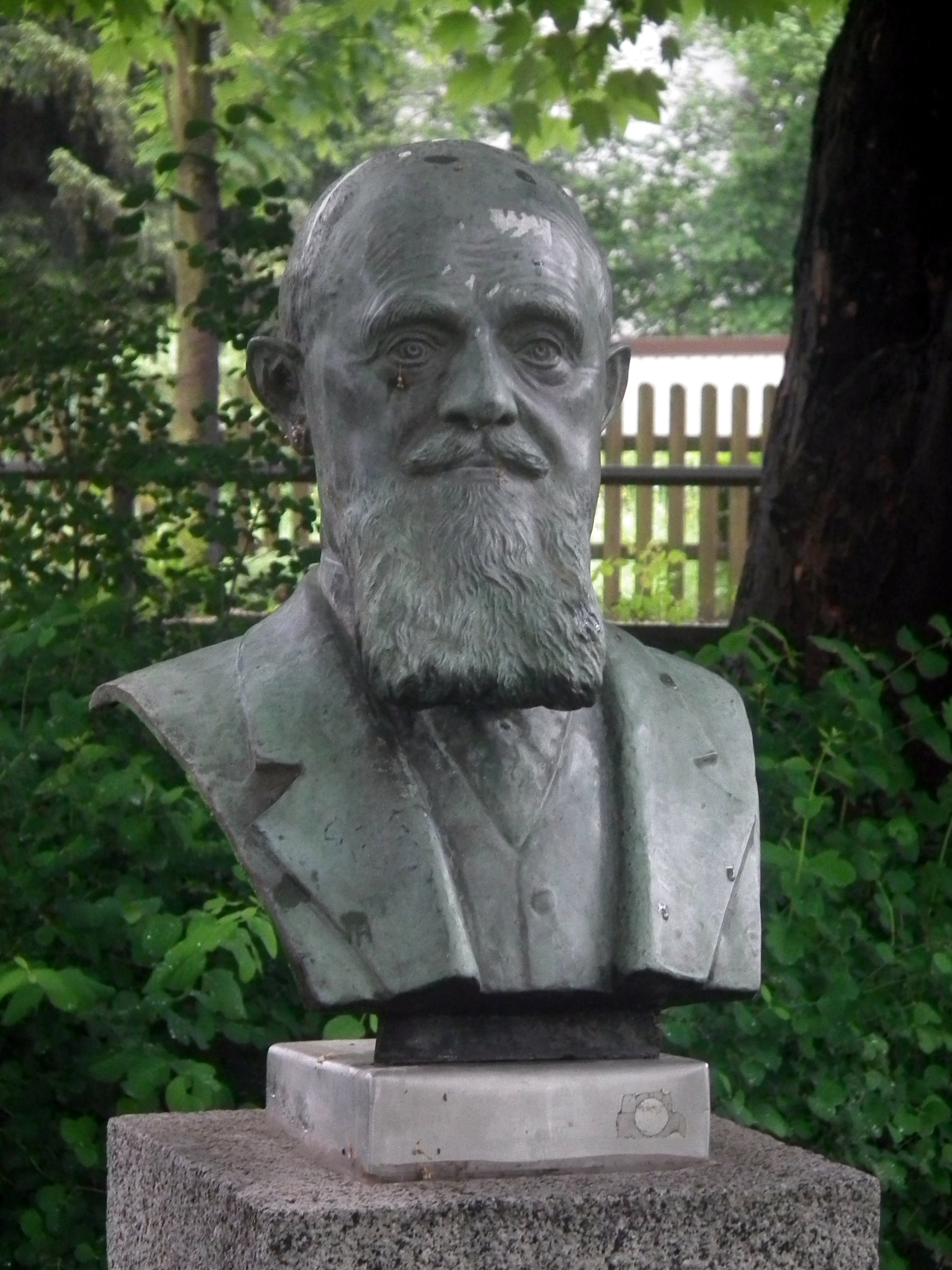 monument of Carl Romer, Coswig, Saxony, Germany